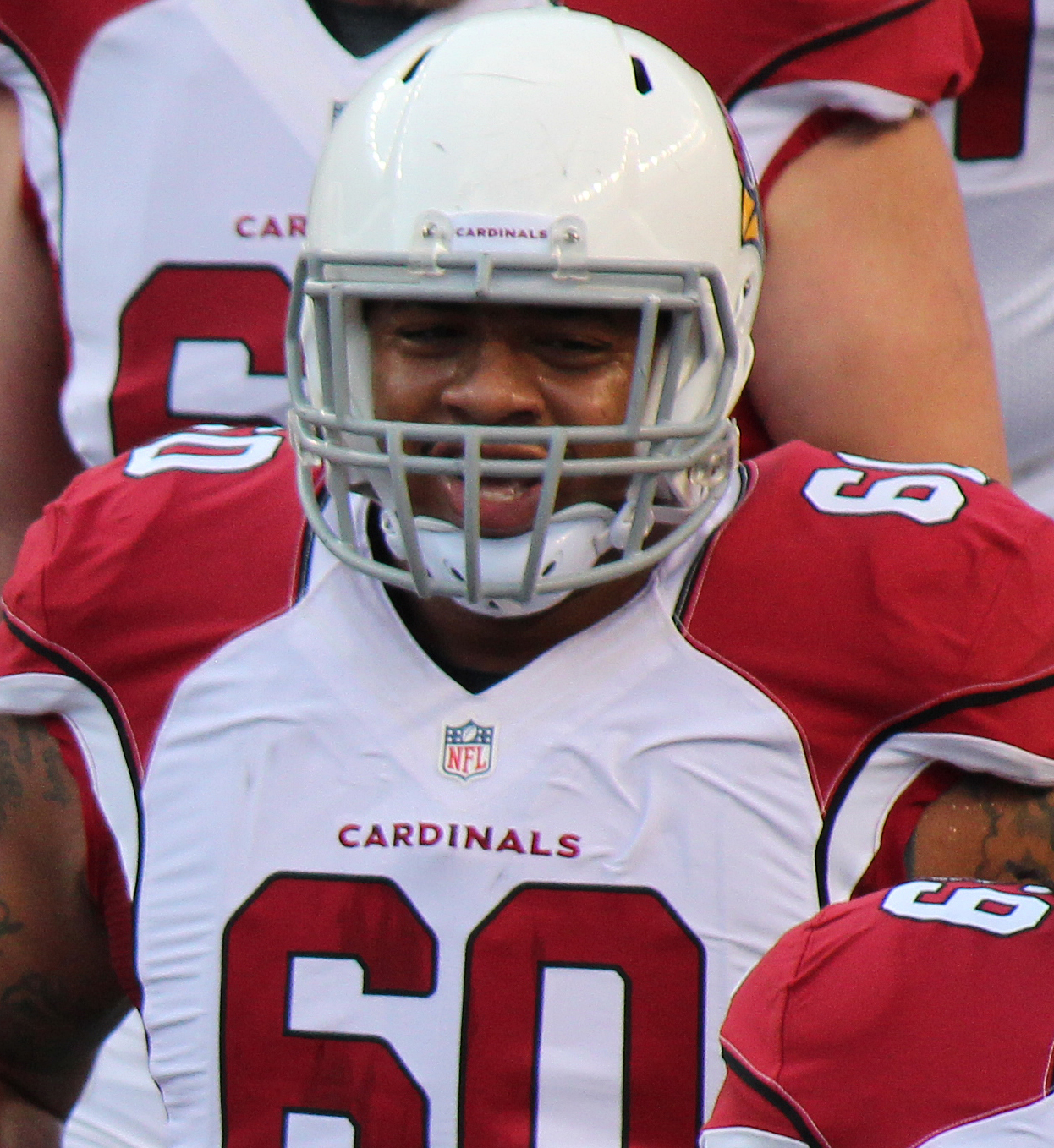 Antoine McClain, a player on the National Football League.